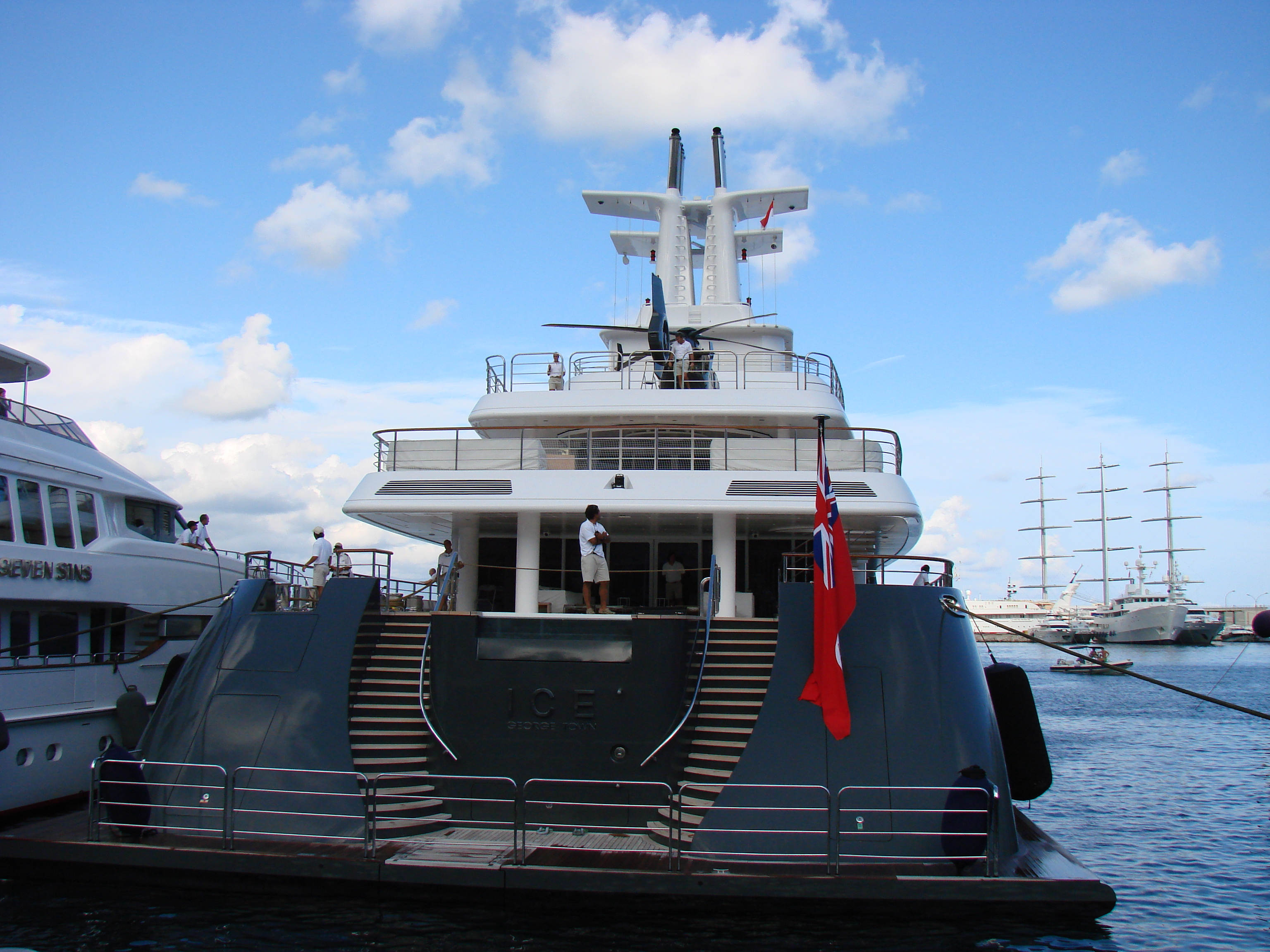 Ice Yacht